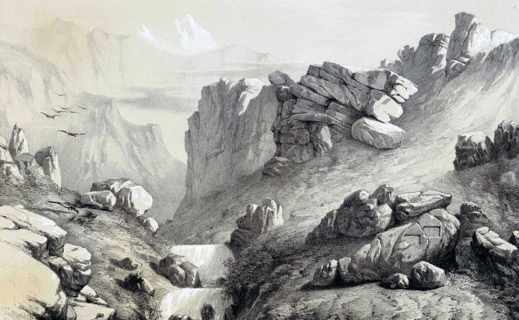 Mount Alvend , throat where cuneiform tablets near Hamadan [Ganjnameh]